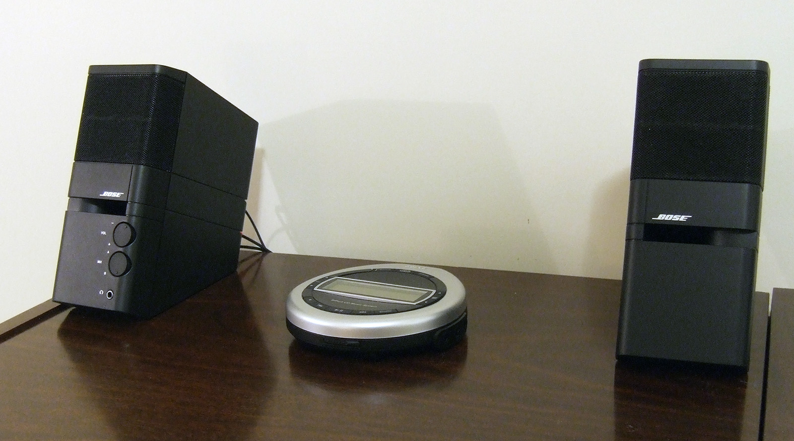 Photograph of Bose MediaMate computer speakers with a Bose "Triport CD Music System" compact disc player.